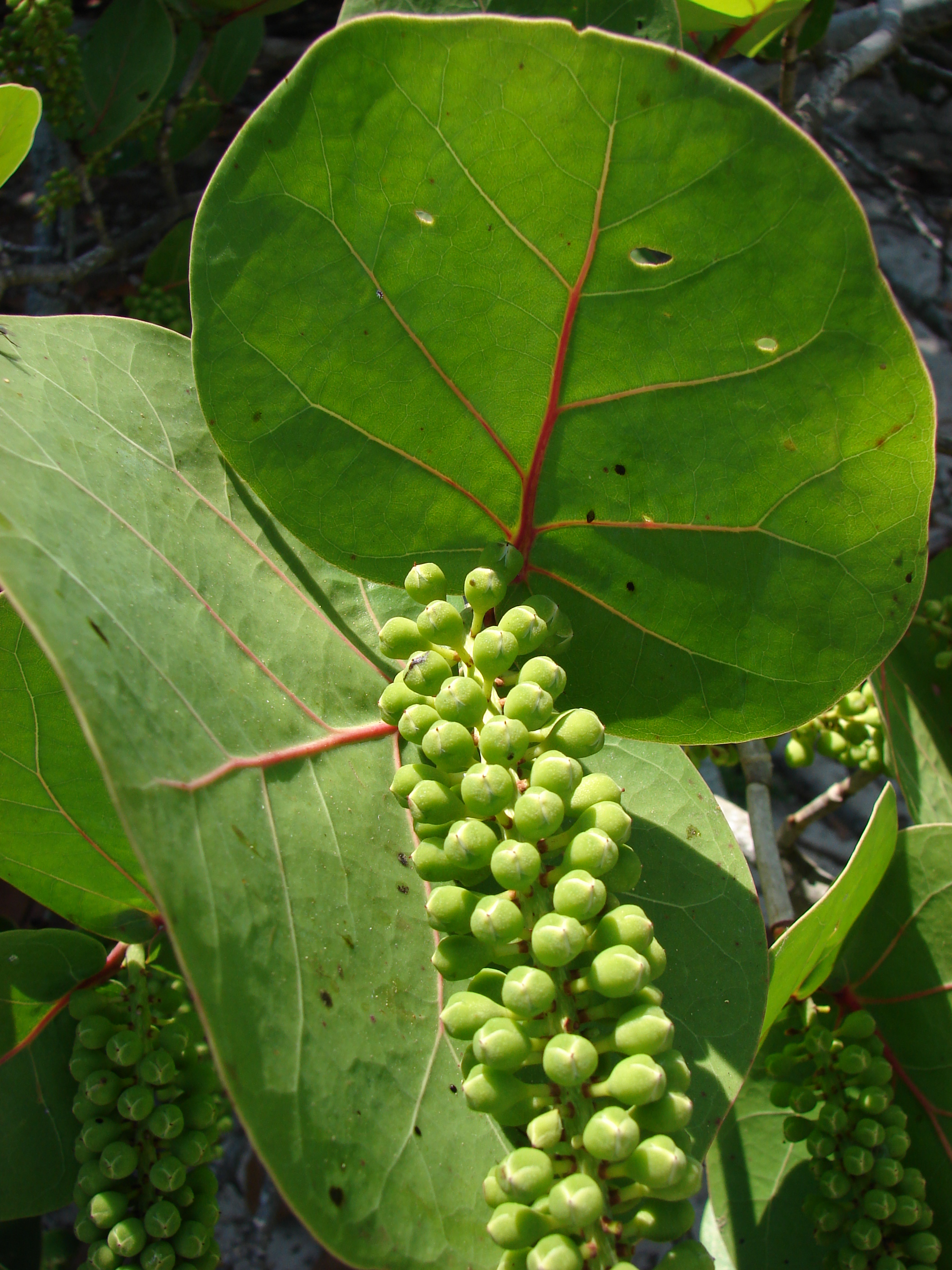 Coccoloba uvifera (leaves and seeds). Location: Midway Atoll, East of Captain Brooks Sand Island